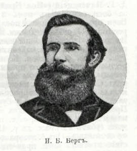 Nikolai Berg